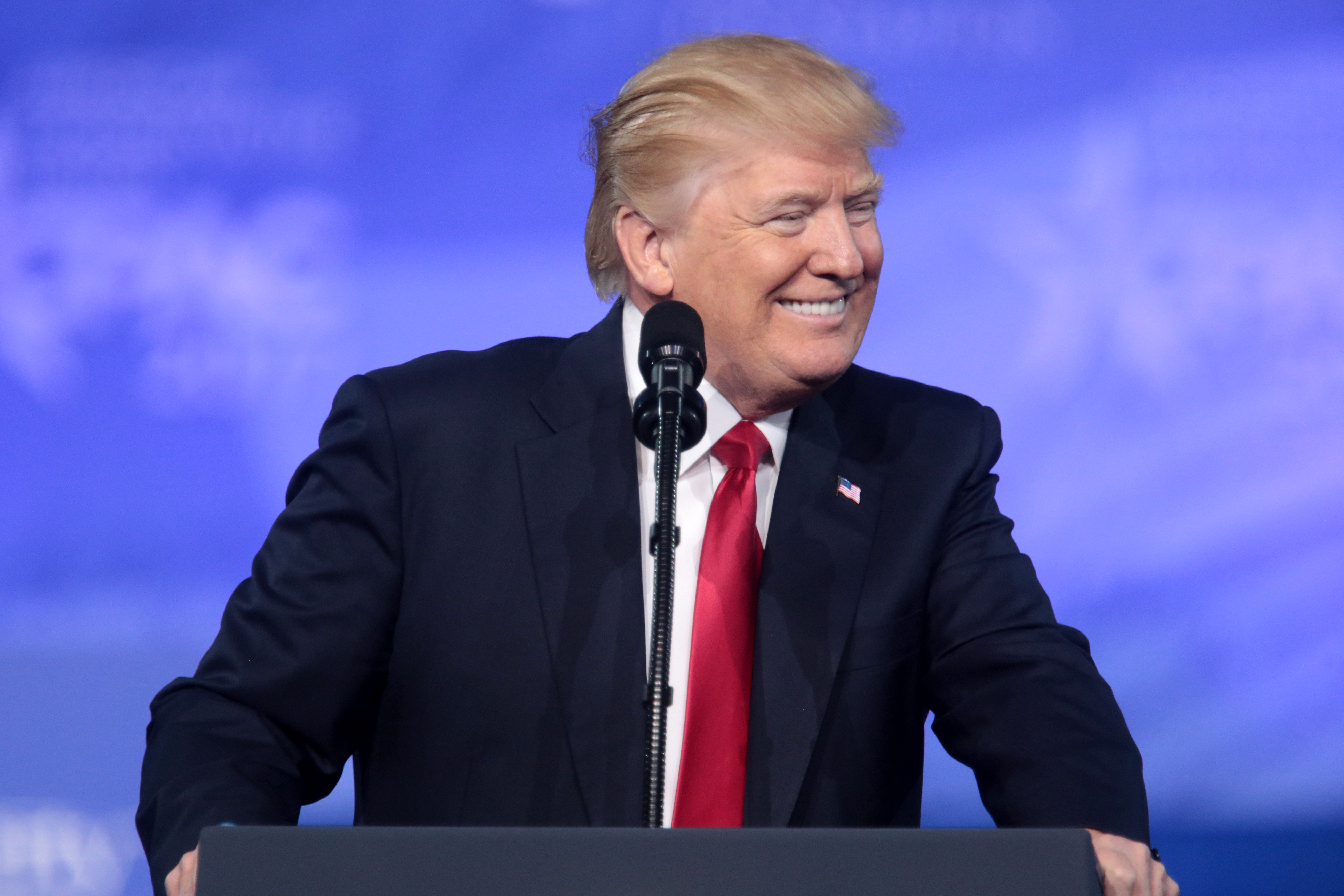 President of the United States Donald Trump speaking at the 2017 Conservative Political Action Conference (CPAC) in National Harbor, Maryland.